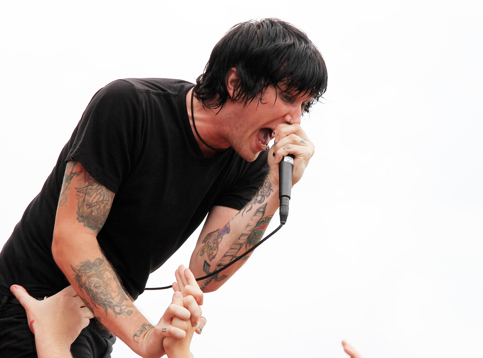 Shawn Milke from Alesana.